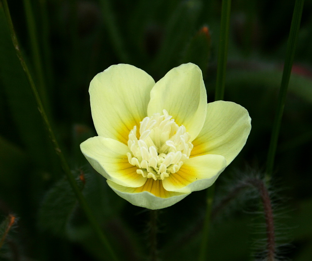 Cream Cups (Platystemon californicus)